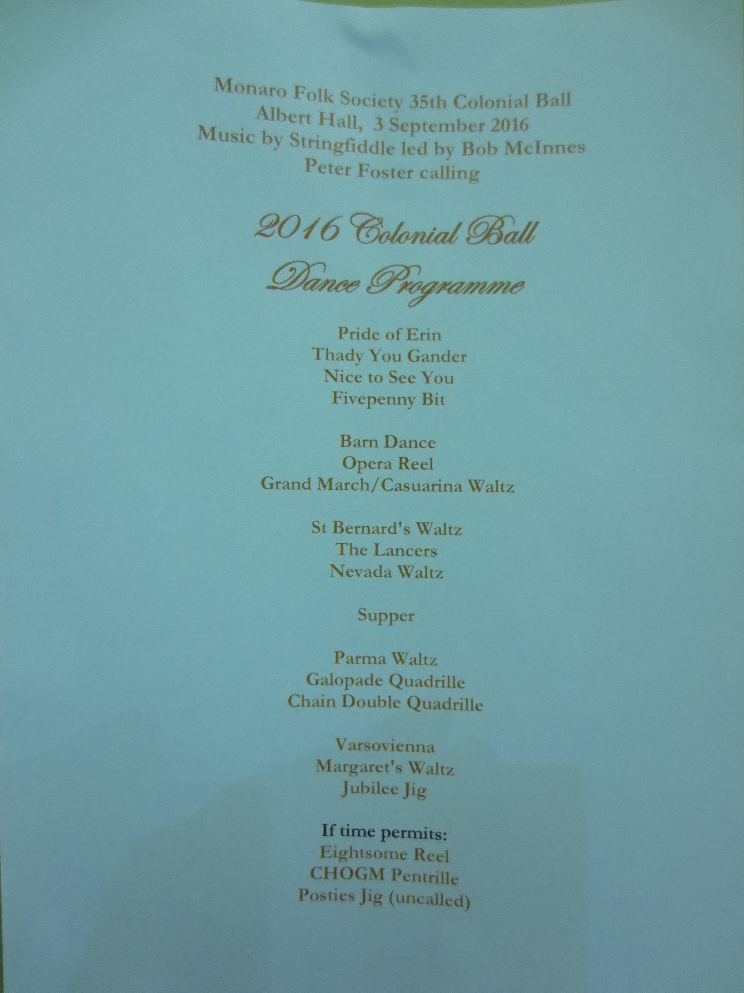 List of dances for traditional colonial ball 2016 in Canberra Australia